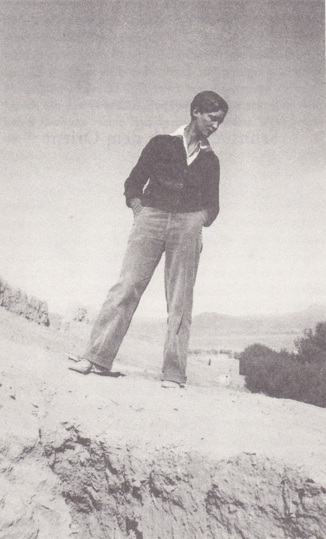 Annemarie Schwarzenbach in Persepolis (1934)